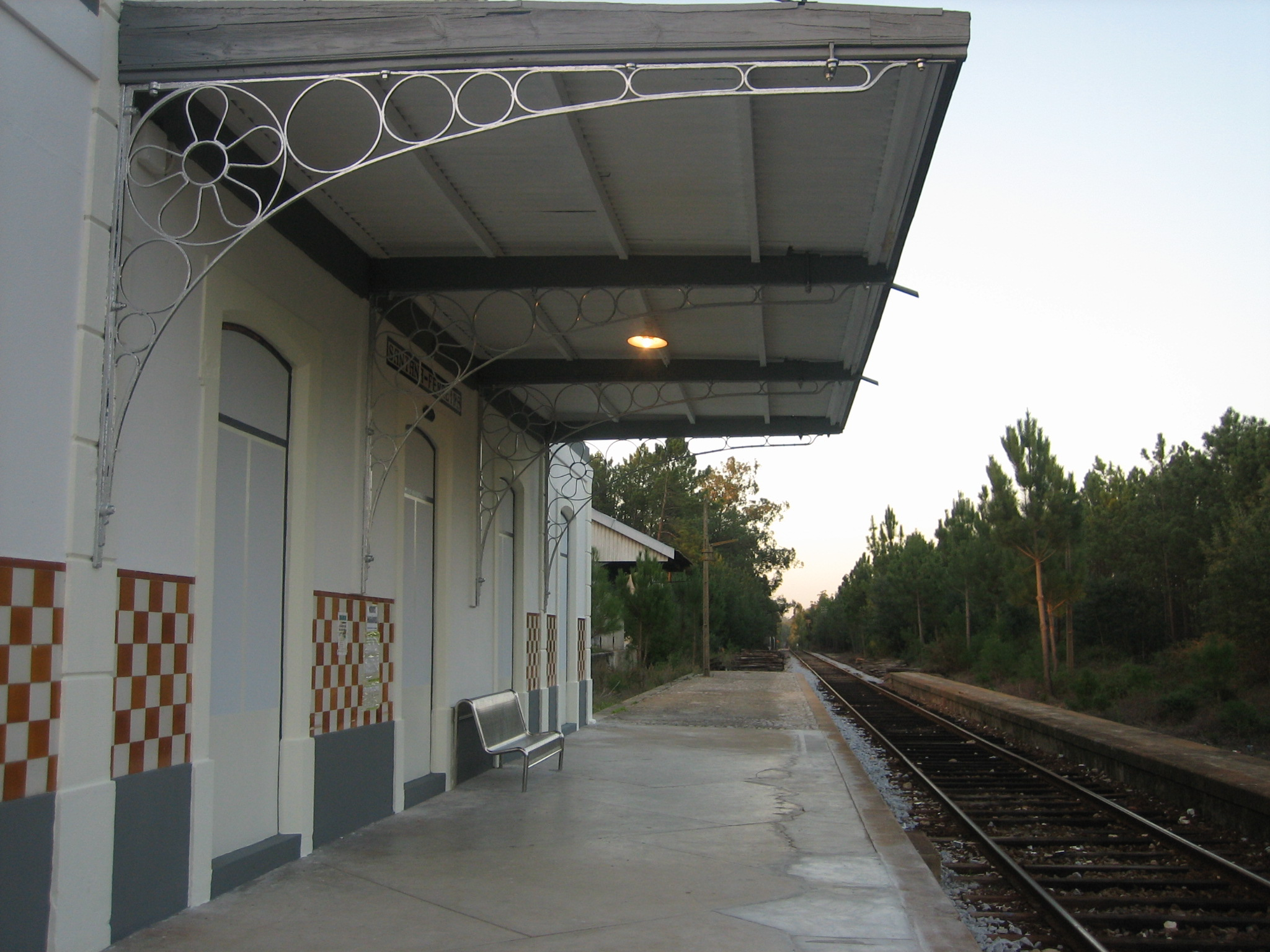 The train station of the freguesias Santana and Ferreir-a-Nova